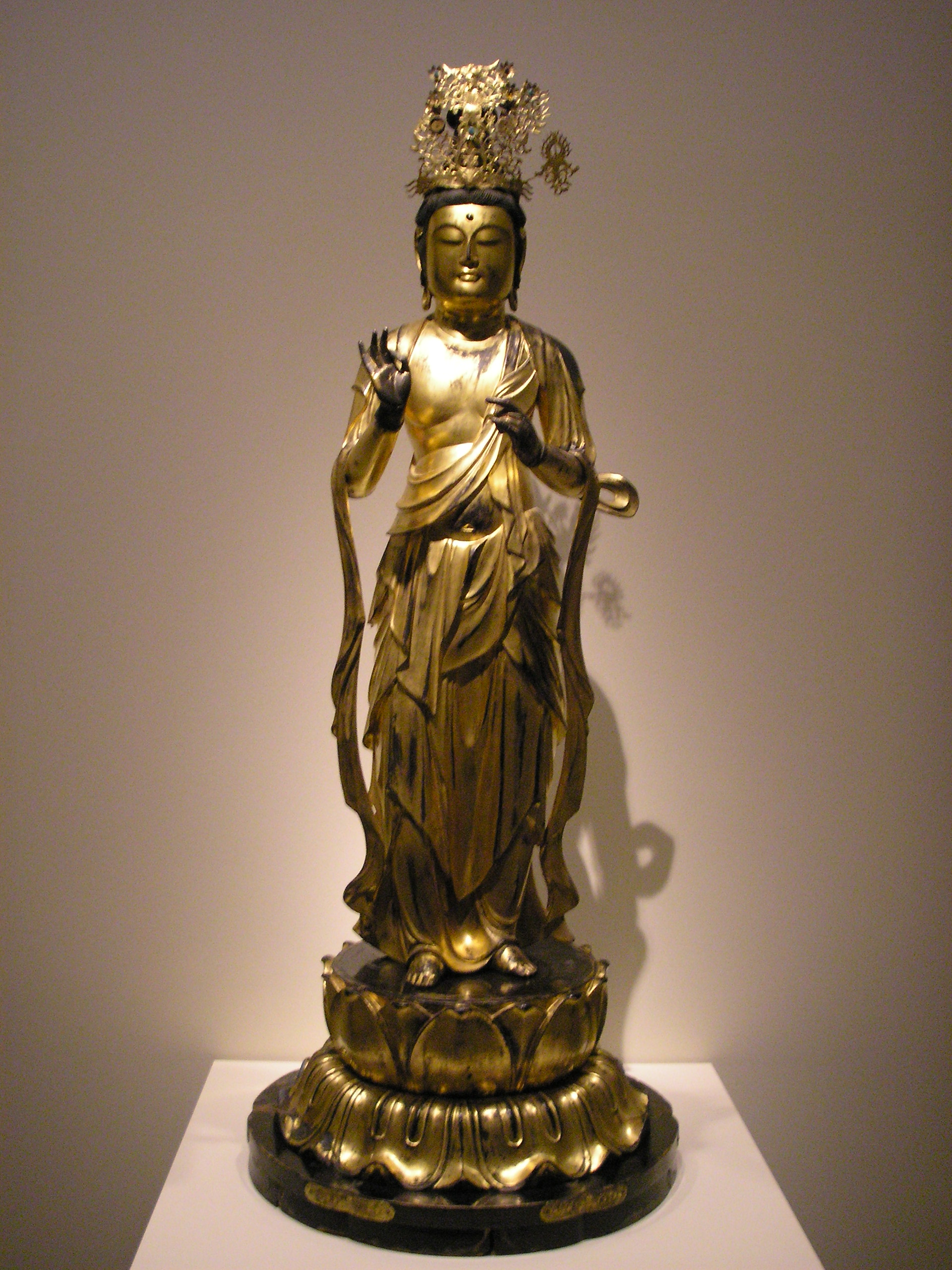 Dai-Seshi Bosatsu, woodcore, gold paint over black lacquer coating. From Japan, Edo period, 1705. Collection Goldmann. Located at the Museum für Ostasiatische Kunst, Berlin-Dahlem. The signature at the base translated reads:Dai-Seishi Bosatsu, carved on the 25th day of the 7th month of the 2nd year of the Hōei-Era (1705) by the great Buddhist master. The signature at the back of the statue reads:On the 25th day of the 7th month of the 2nd year of the Hōei-Era (1705), given by the construction master Takabayashi Matabei Shigeyuki.